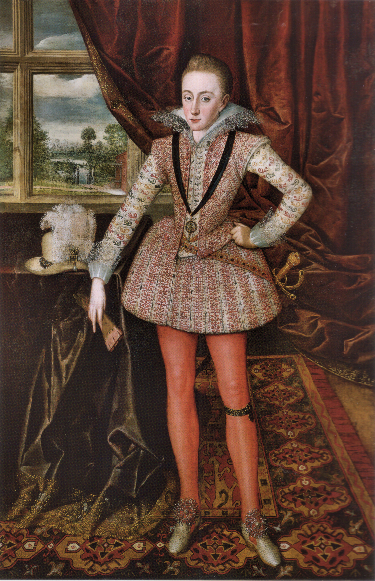 Henry Frederick (1594–1612), Prince of Wales